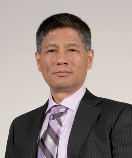 Shesh Ghale, co-founder of MIT